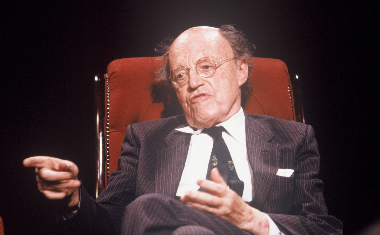 Lord Longford appearing on After Dark on 18 June 1988. Other guests included Patricia Highsmith. More here.